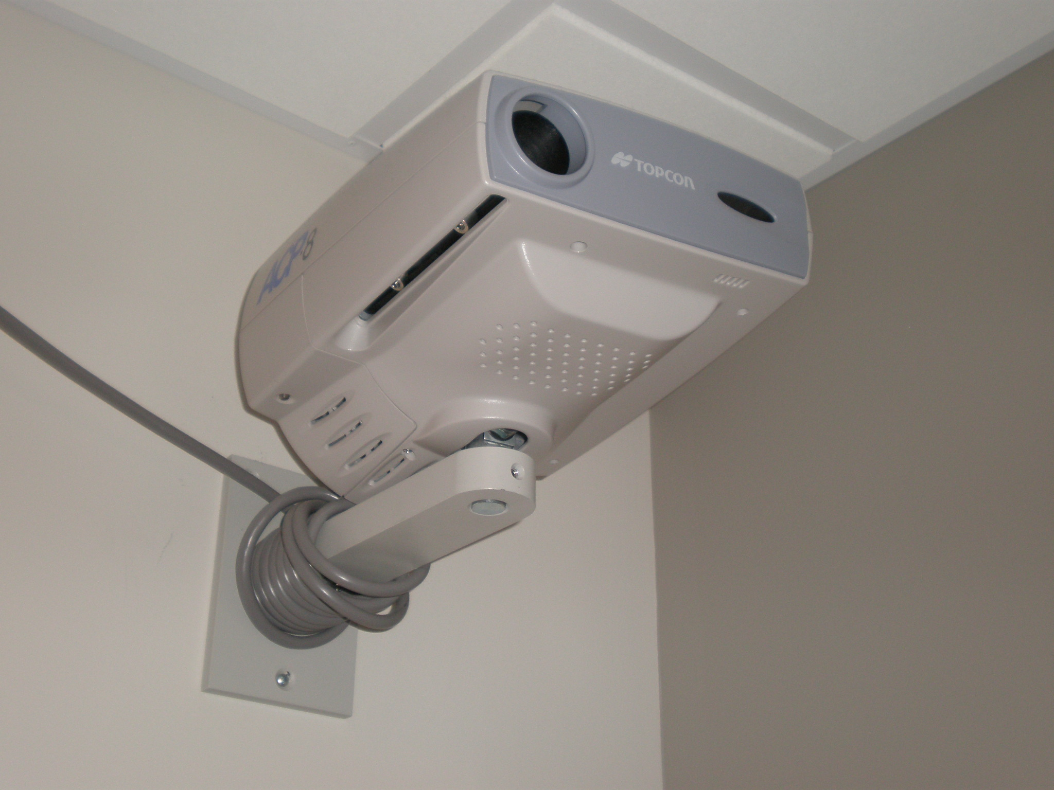 A Topcon ACP 8 projector found in a Lenscrafters in San Bruno, California.